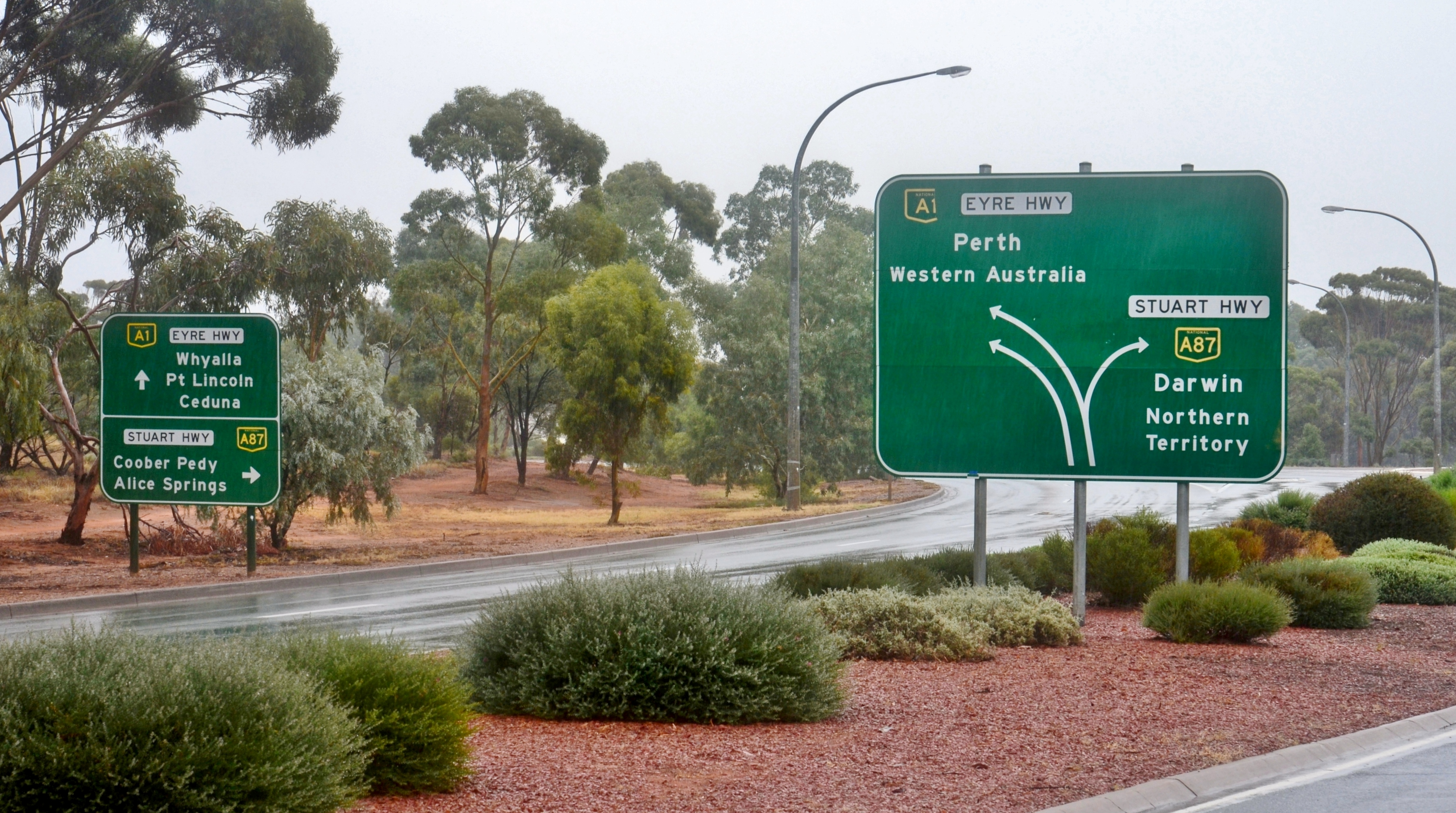 Highway sign at the junction of the Eyre Highway, Stuart Highway and Augusta Highway near the western edge of Port Augusta, South Australia, showing the directions to Perth and Darwin